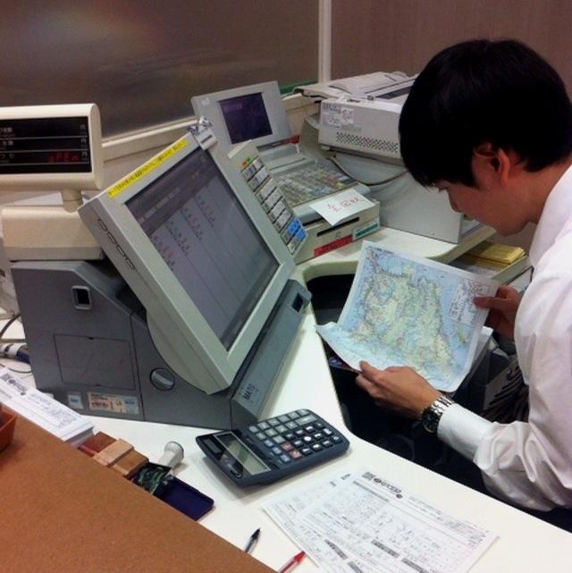 A MARS train ticket reservation system terminal at a JR station in Tokyo